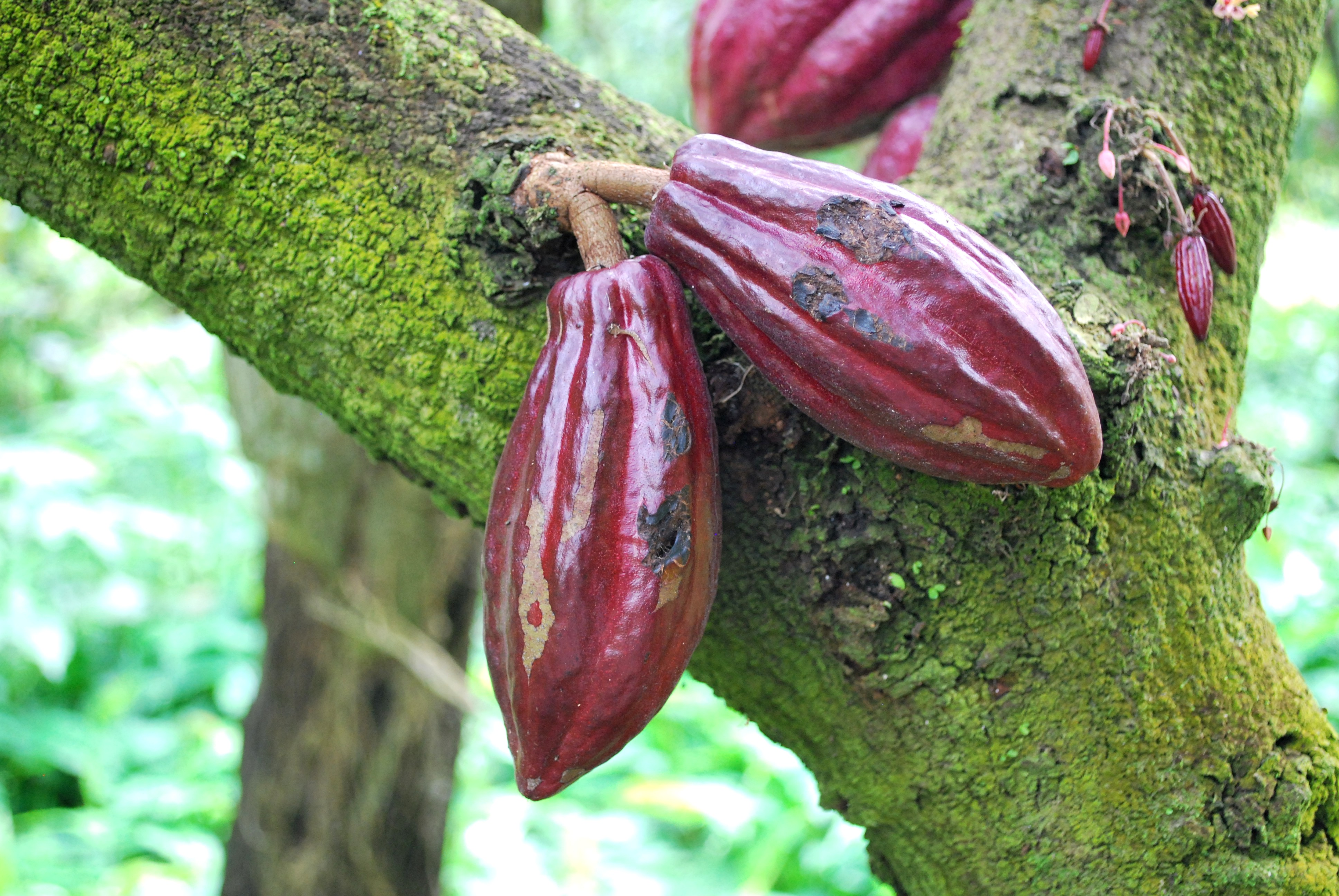 Purple cacao pods at the La Chonita Hacienda in Tabasco, Mexico